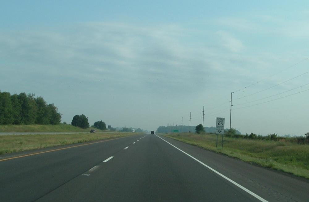 US 23 Northbound near Marion, Ohio. Self Made Photo.